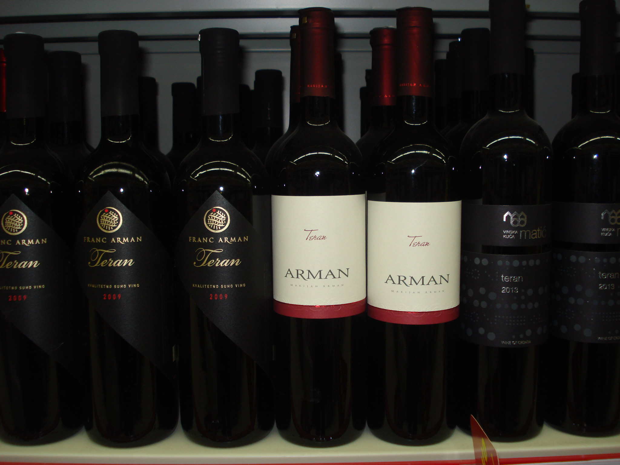 Various bottles of Teran wine, autochthonous quality dry red wine with controlled geographical origin, produced in specified region of Western Istria, Croatia, on a shelf